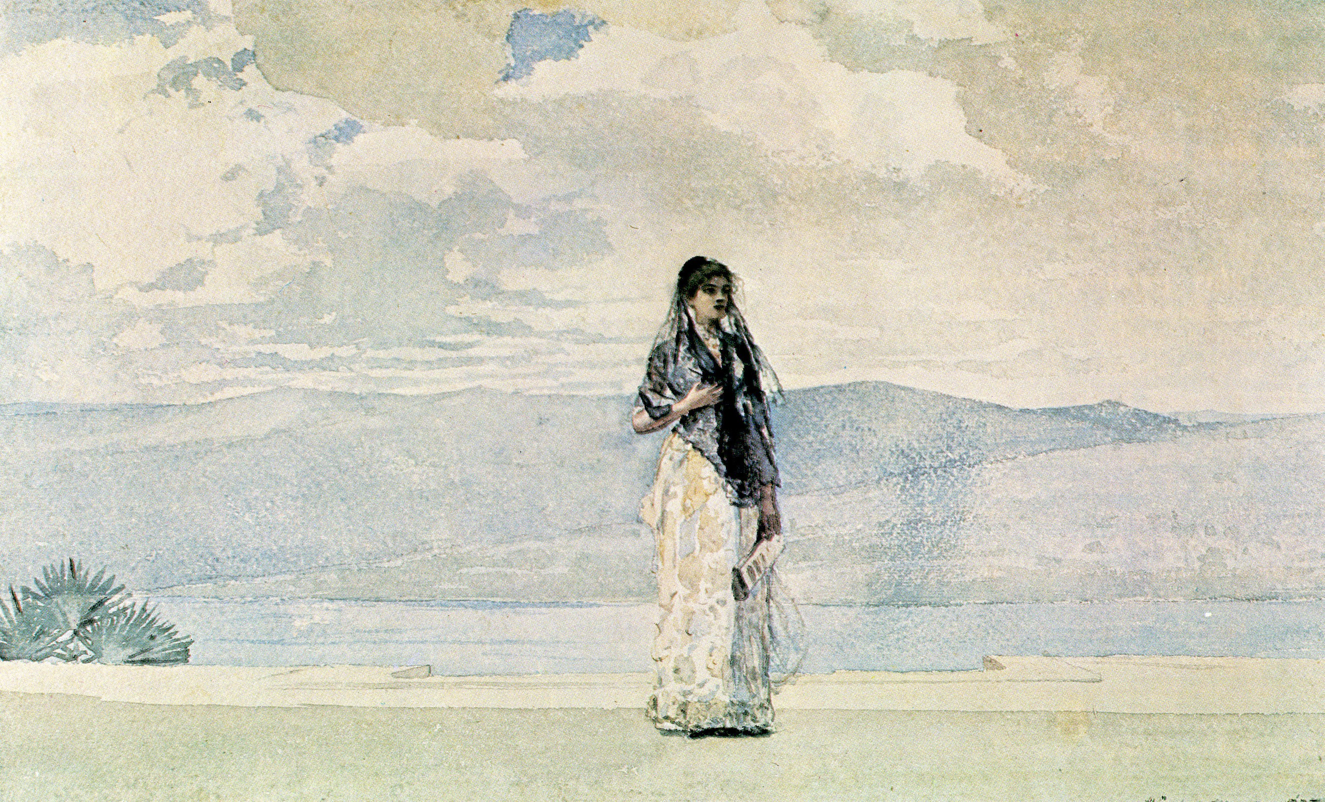 the Wife of Luis Manuel de Pando y Sánchez, Governor of Cuba